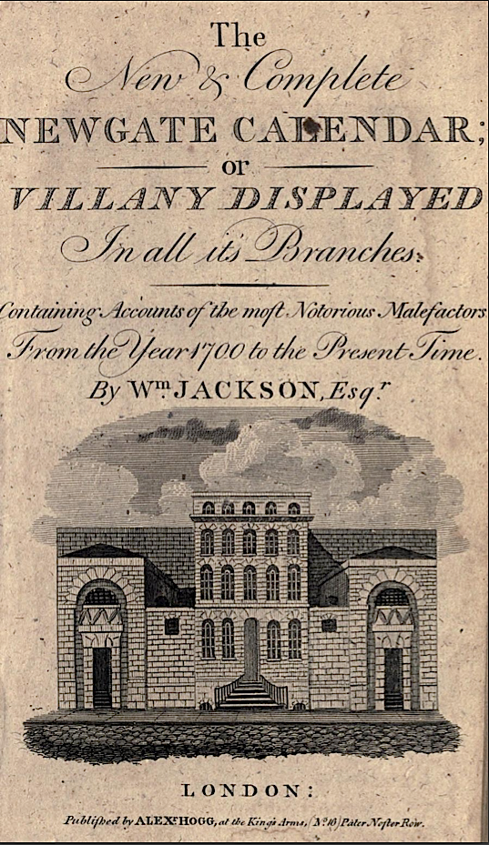 Cover of The New & Complete Newgate Calender; or, Villany displayed in all its branches. Containing accounts of the most notorious malefactors from the year 1700 to the present time, by William Jackson, esq., published in London, by A. Hogg.